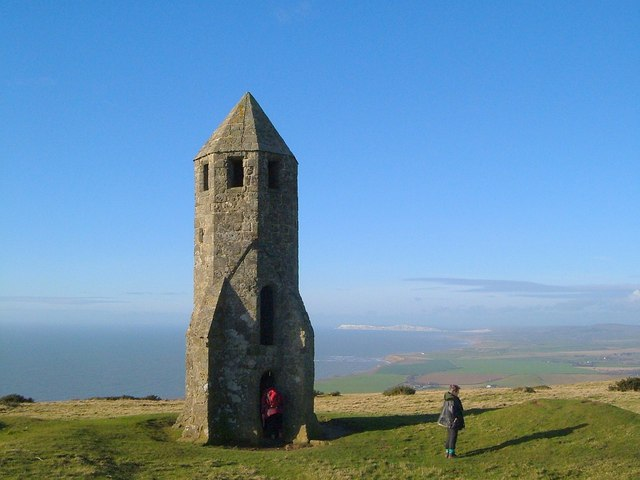 Tower of St Catherine's Oratory (2). I think the door was locked, and, in any case, there are no stairs. See 1414112. This view shows the "pointed doorways on ground and first floors which originally communicated with the Priest's dwelling and the Chapel respectively". In the background, a distant view of the chalk Highdown Cliffs.